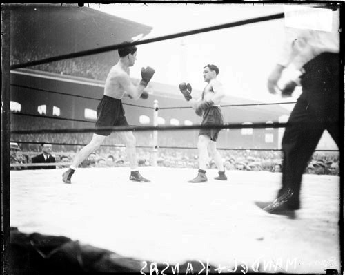 "Informal portrait of pugilists Sammy Mandell (left) and Rocky Kansas (right) facing one another, dark exposure, standing in boxing stances in a boxing ring during a bout at Comiskey Park, which was located at 324 West 35th Street and bounded by West 34th Street, South Shield's Avenue (formerly Portland Avenue), and South Wentworth Avenue in the Armour Square community area of Chicago, Illinois. A referee is partially visible walking in the foreground. Crowds are visible sitting ringside and in grandstands in the background."